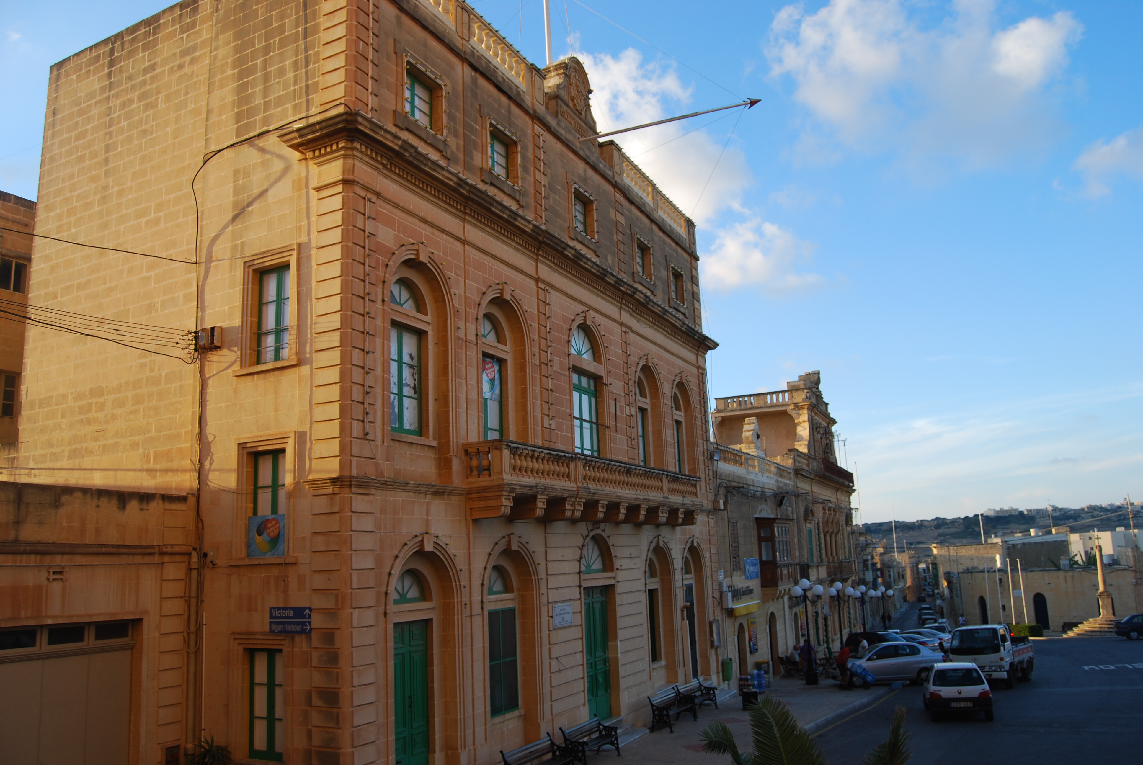 Xewkija, Gozo, Malta